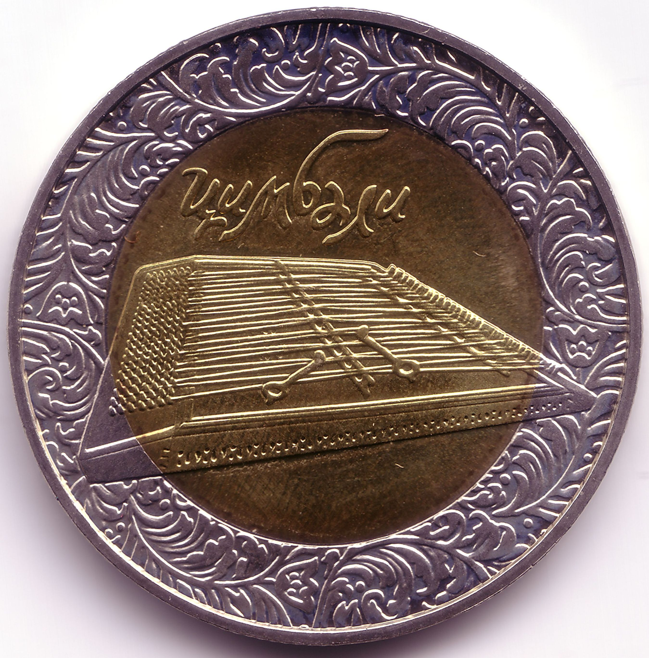 Coin of Ukraine